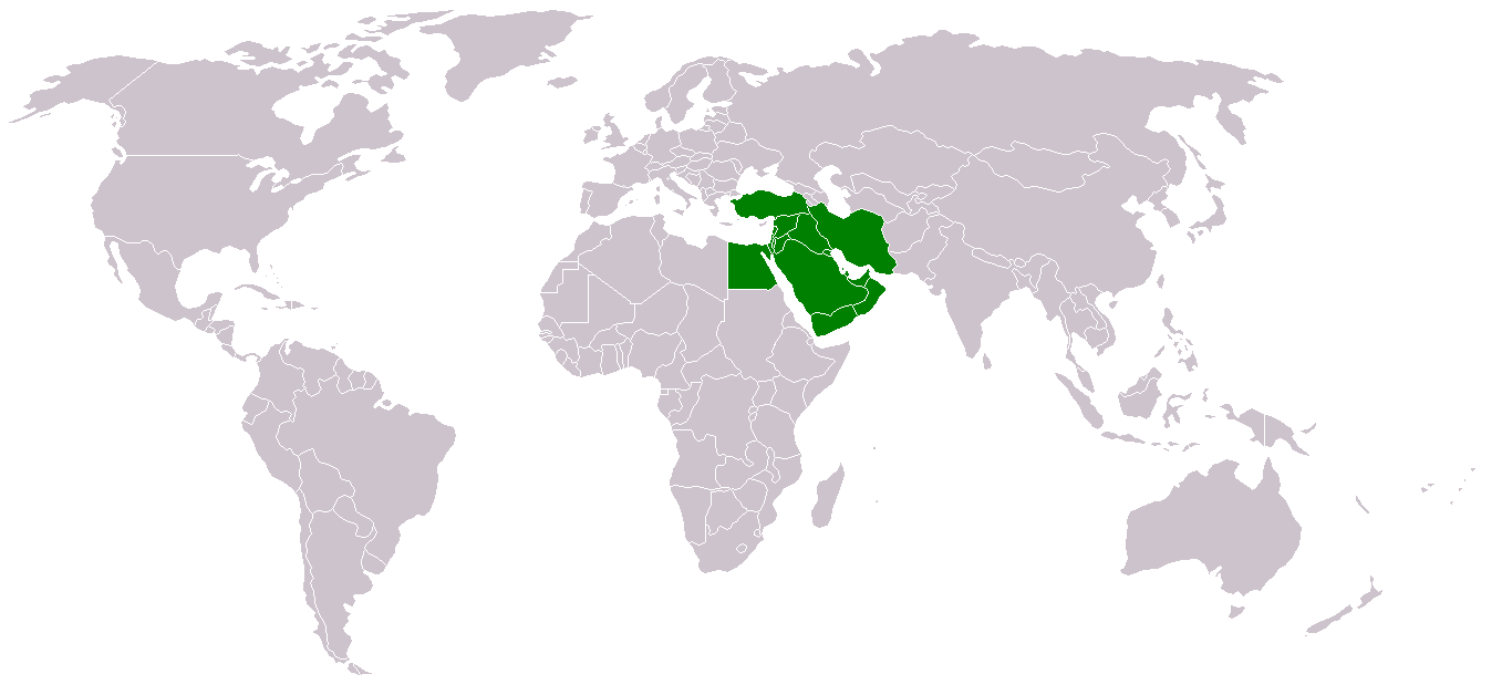 Description: Map of Countries of the Middle East. Beschreibung: Karte von Ländern des Nahen Ostens. Old image originally from Wikimedia Commons Image:BlankMap-World.png. New image is self-created, by Benutzer:Sven-steffen arndt.